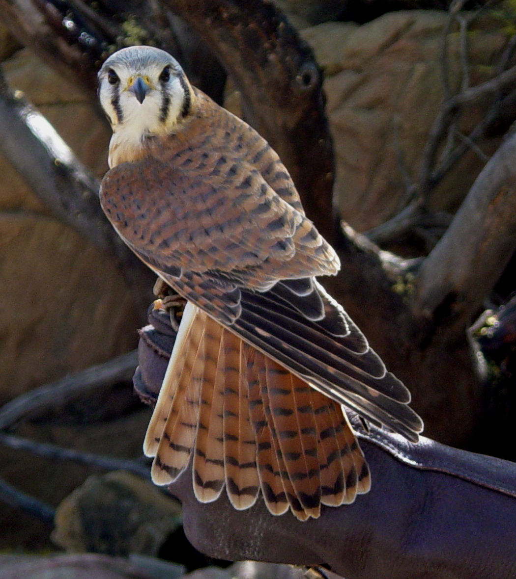 Falco sparverius (American Kestral, sometimes called a sparrowhawk) shown by a docent at the Desert Museum near Tuscon, Arizona. Clip of Image:Falco sparverius5071.JPG with contrast enhanced Image by User:Leonard G.